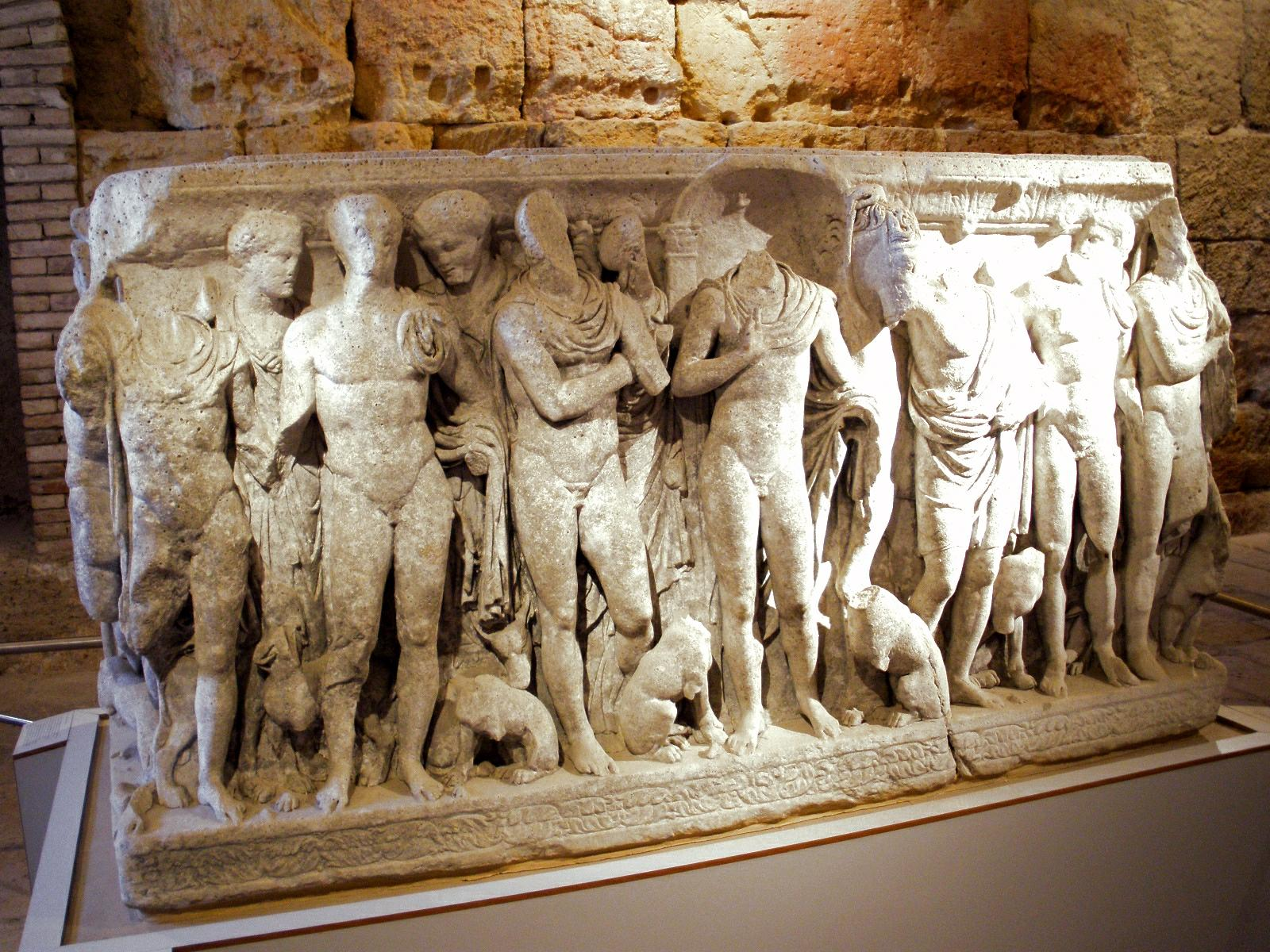 Sarcófago romano en dependencias subterráneas del antiguo circo romano de Tarraco (Tarragona)